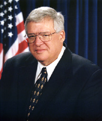 Dennis Hastert; from 02:08, 21 February 2004 J.J. 200x238 (32799 bytes) (gov portrait) 03:15, 8 December 2003 Jiang 271x327 (35002 bytes) ( Dennis Hastert ; from )